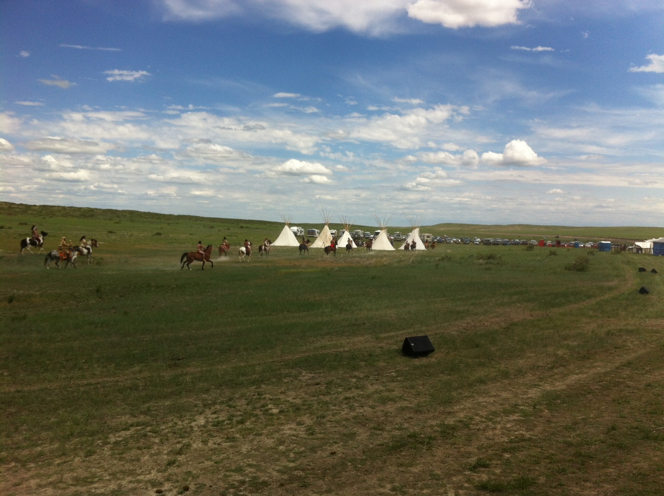 Custer's Last Stand Reenactment 2013, near Old U.S. Highway 87, Hardin, Montana.